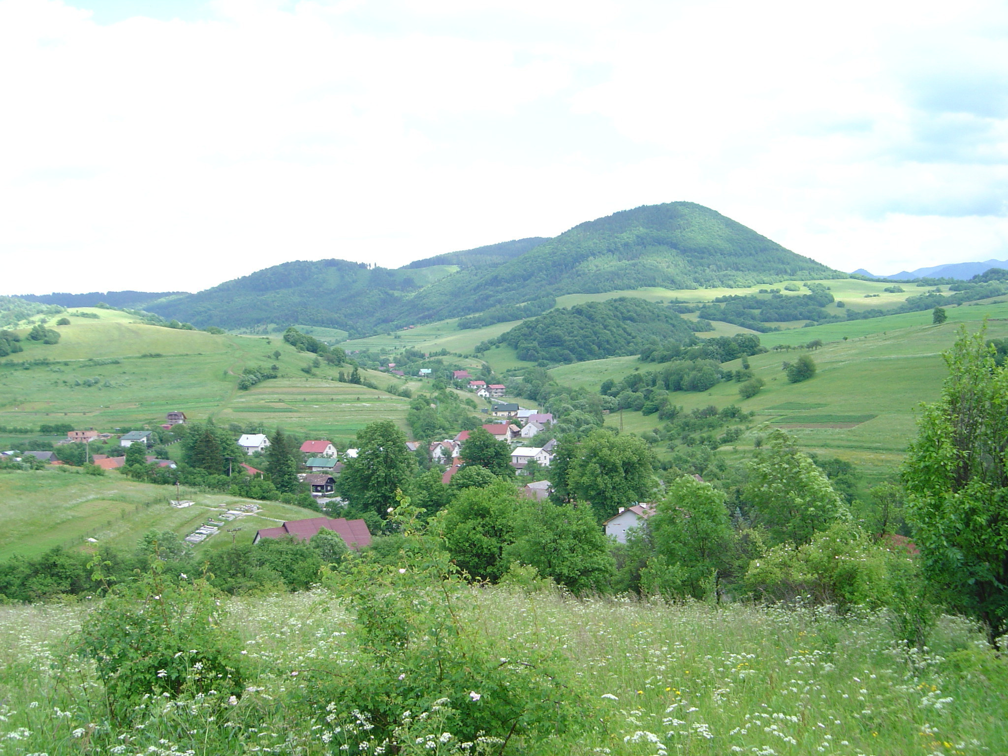 A view of the Slovak village of Horný Vadičov